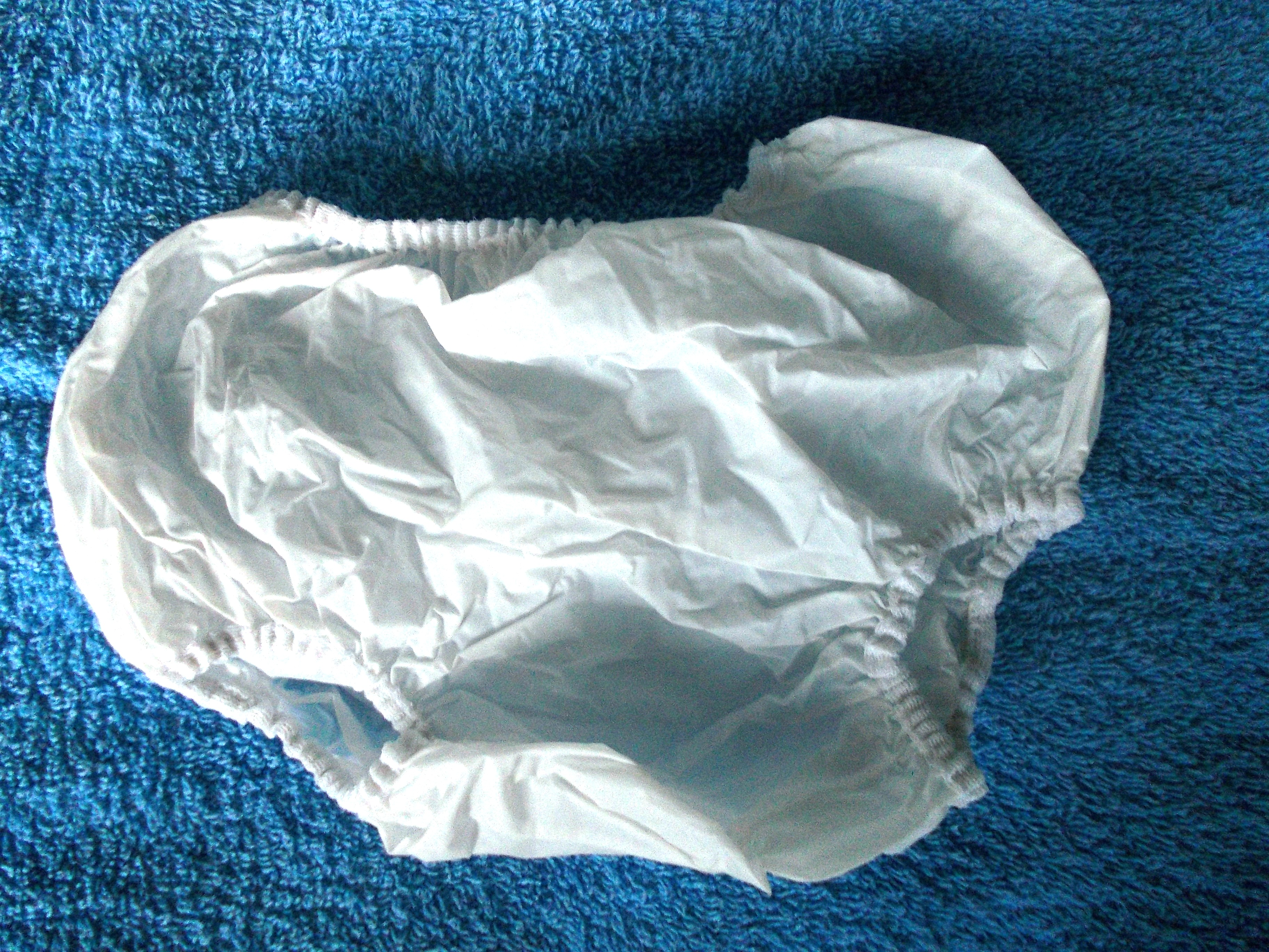 Plastic pants for fitting over baby diaper